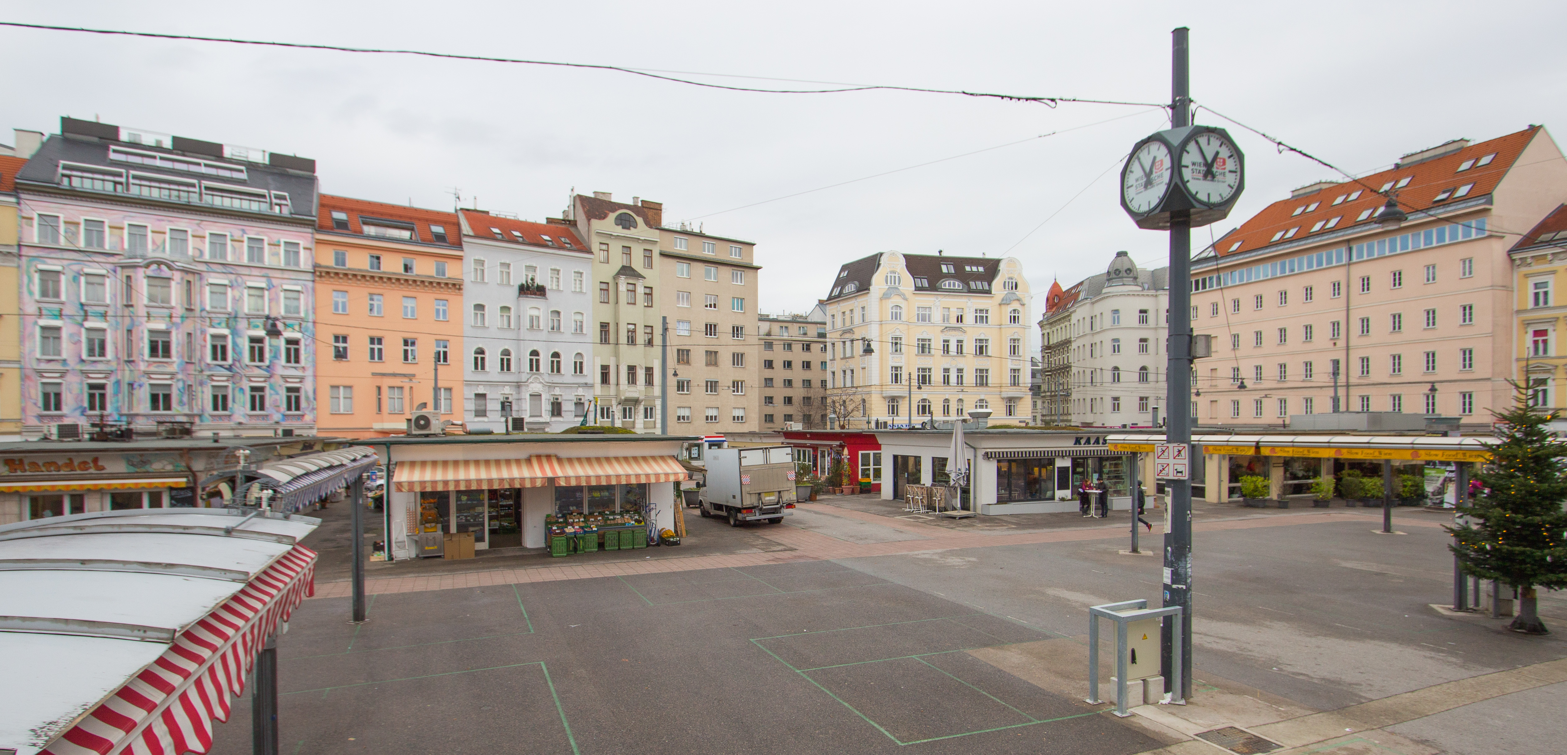 Market Karmelitermarkt in Vienna Leopoldstadt